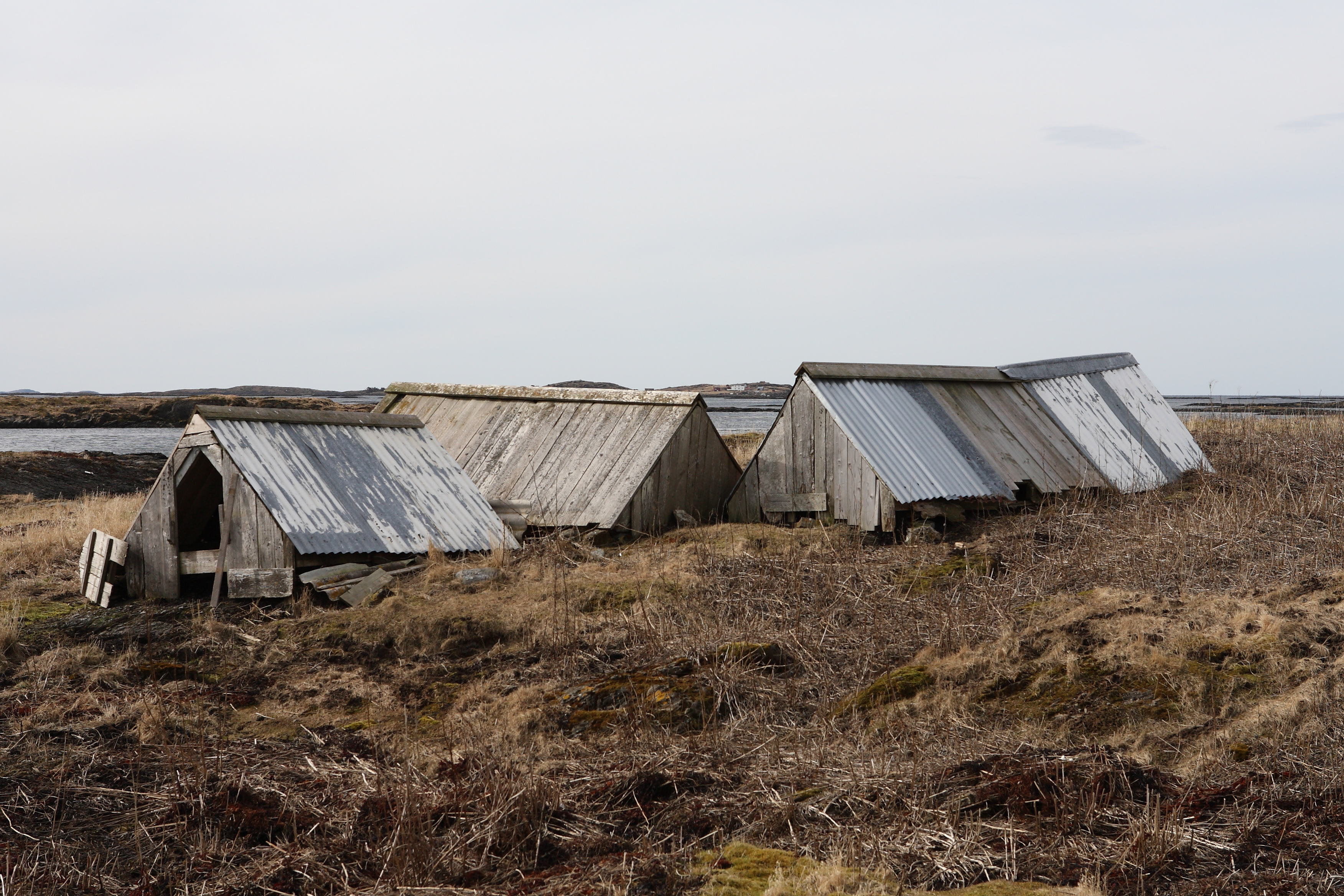 Nestingboxes for Common Eider at Lånan in Vega, Norway.